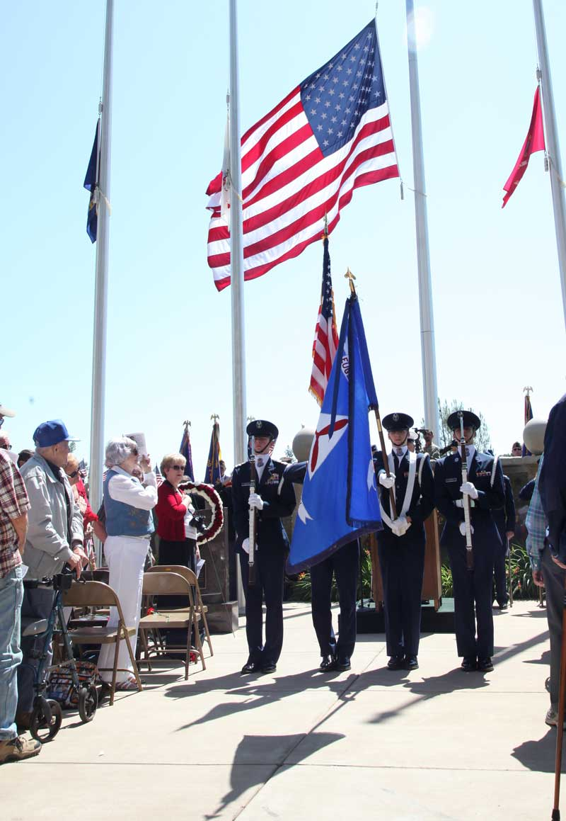 The Civil Air Patrol honor guard presents the colors during the 2012 Memorial Day observance at the El Dorado County Veterans Monument in Placerville, Calif.. Thousands in attendance had the opportunity to hear 940th Wing Reservist,Senior Master Sgt. Ian Troxell of the 713th Combat Operations Squadron, speak about his experience conducting security for convoys in Iraq. (U.S. Air Force photo by Tech. Sgt. Kenneth McCann)